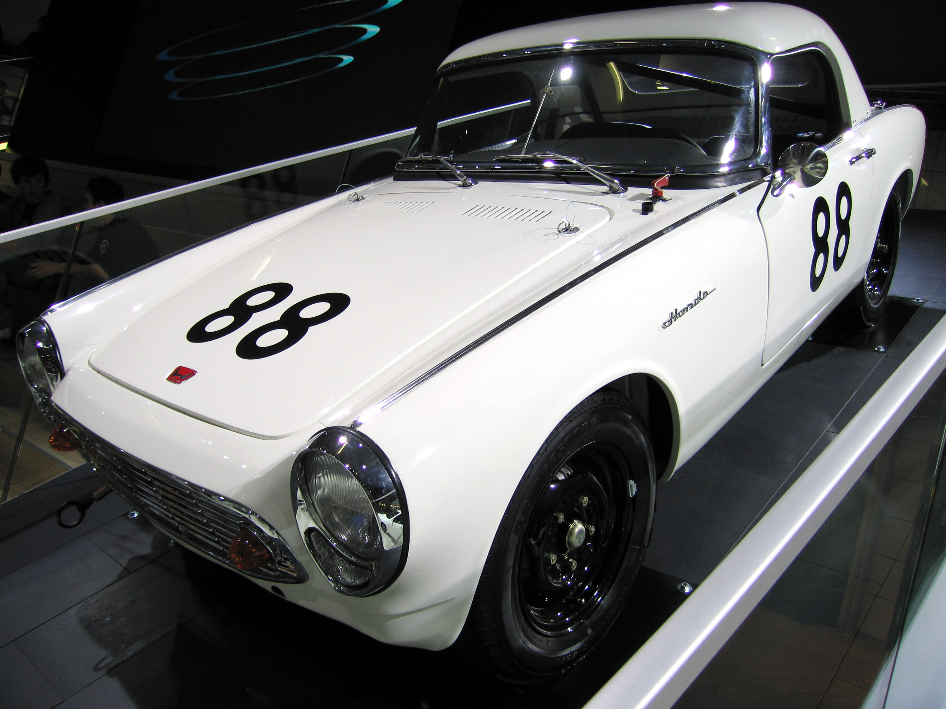 Honda S600 replica of the 1964 racing car at the IAA 2007